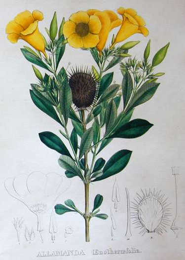 Allamanda oenotherifolia